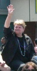 State Senator Sheila Kuehl at West Hollywood Pride Parade.